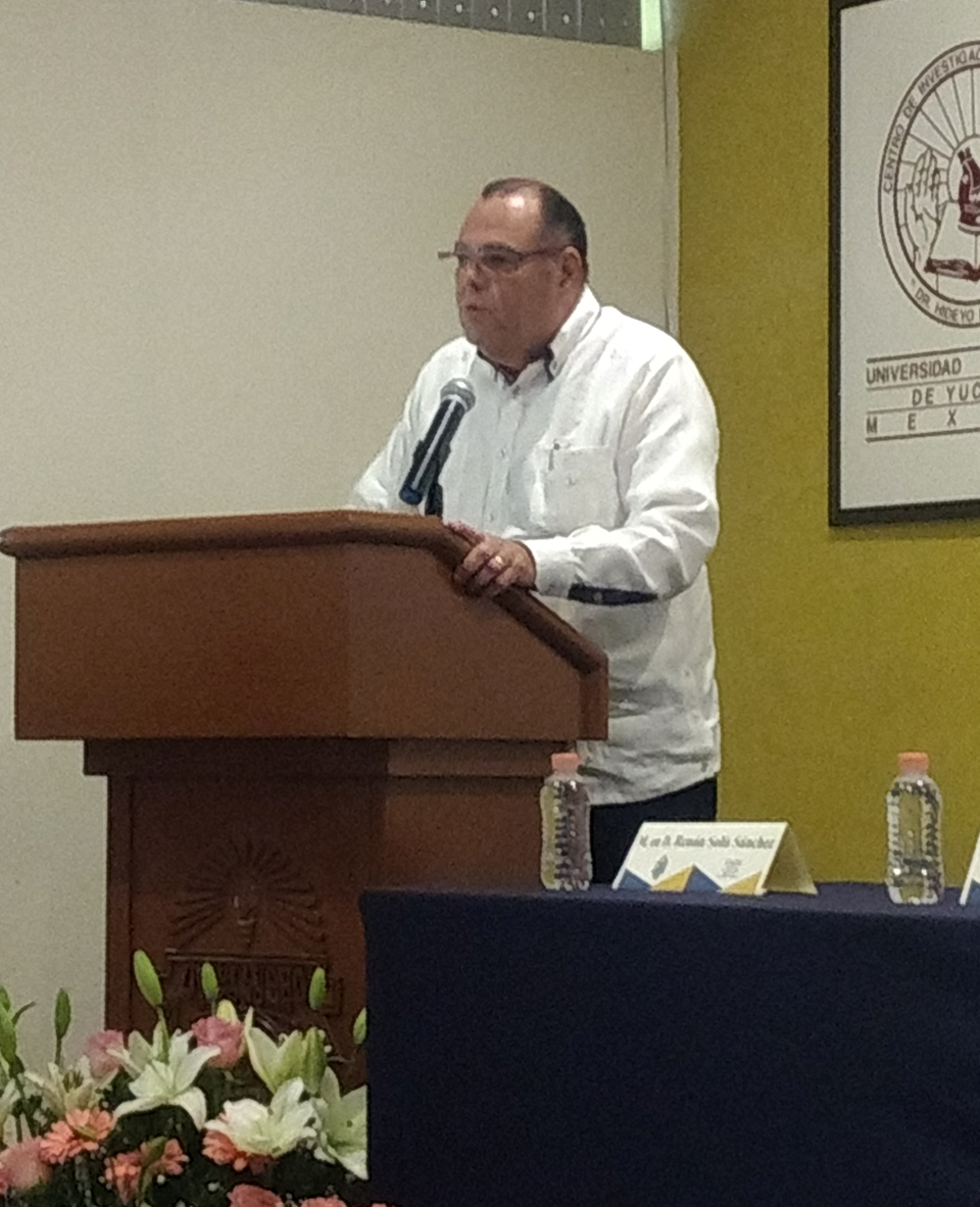 Jorge Zavala Castro dando una charla en el Centro de Investigaciones Regionales "Dr. Hideyo Noguchi"